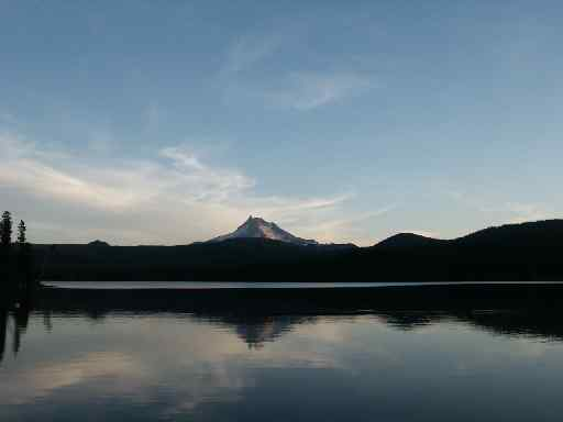 Olallie Lake Scenic Area with Mount Jeferson Oregon in the background.